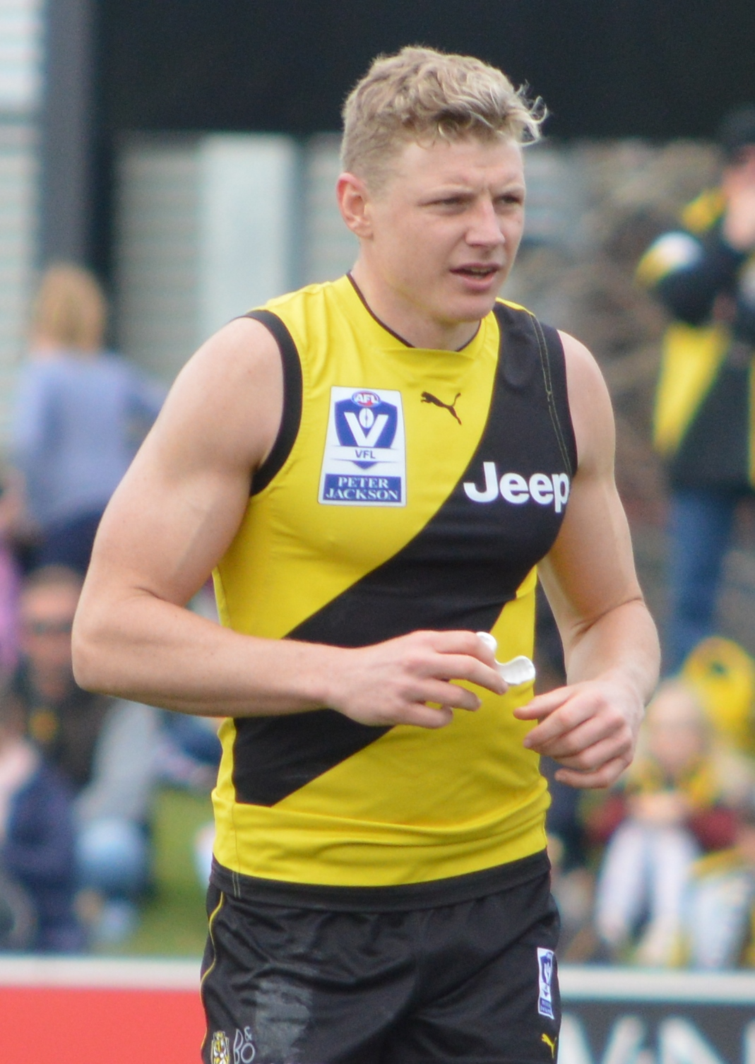 Taylor Hunt in a VFL match at Punt Road Oval in July 2017